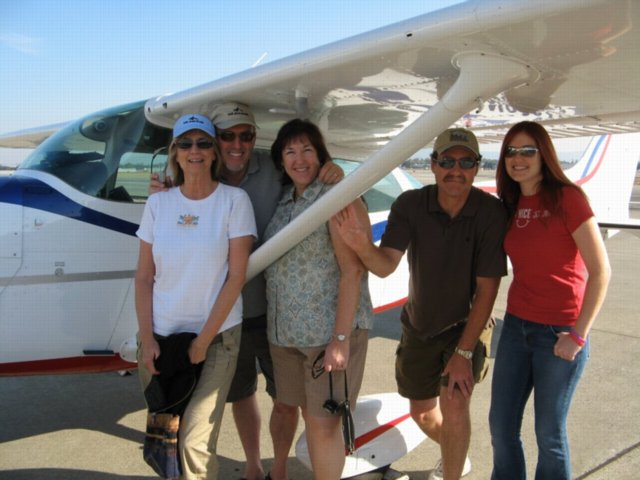 Private pilot and family next to Cessna 172 aircraft before three were taken as passengers for a scenic flight, taken 8/15/08.